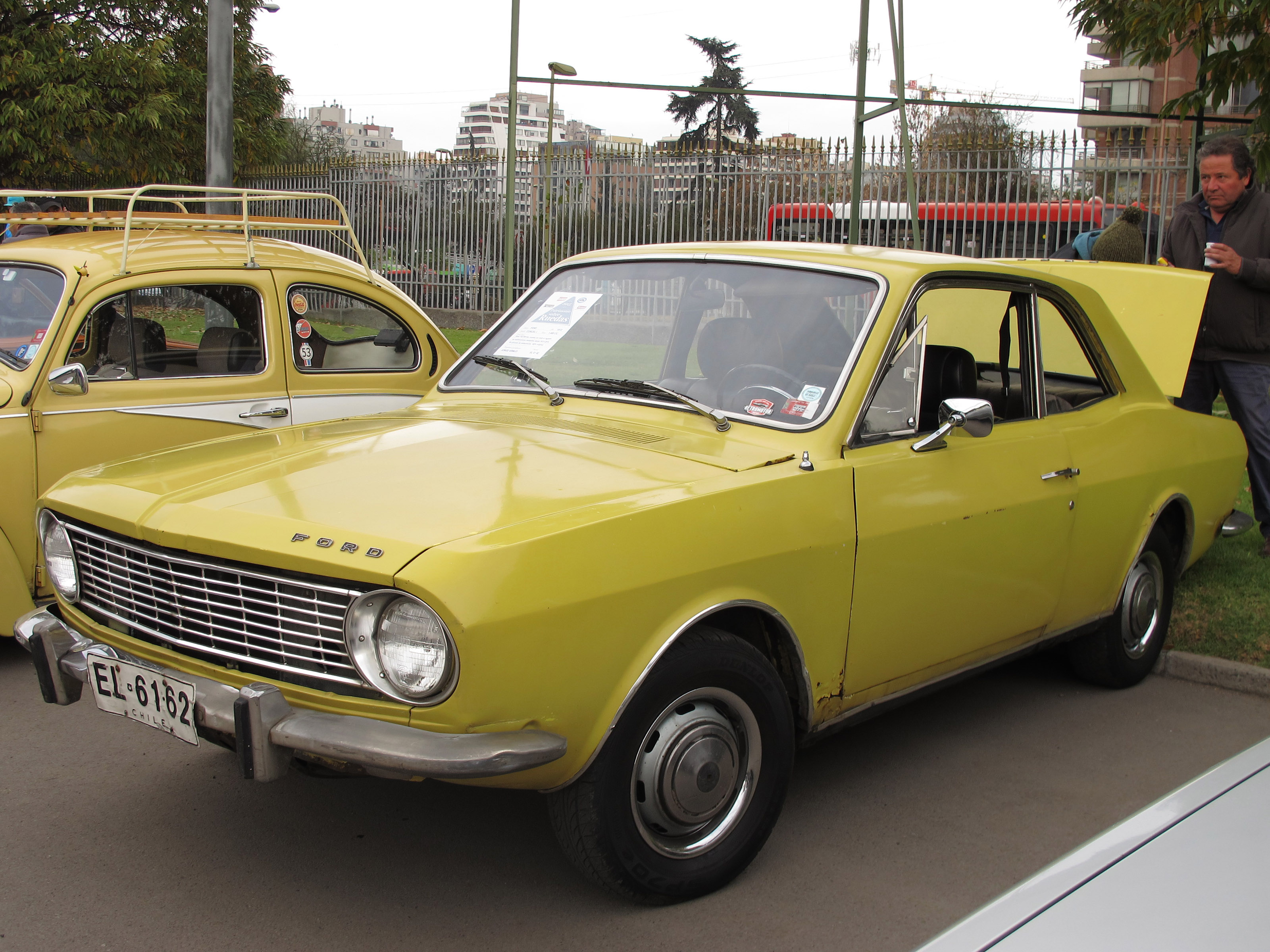 Ford Corcel 1400 Coupe 1972